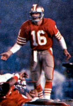 San Francisco 49ers quarterback Joe Montana pictured in an offensive play during Super Bowl XIX.